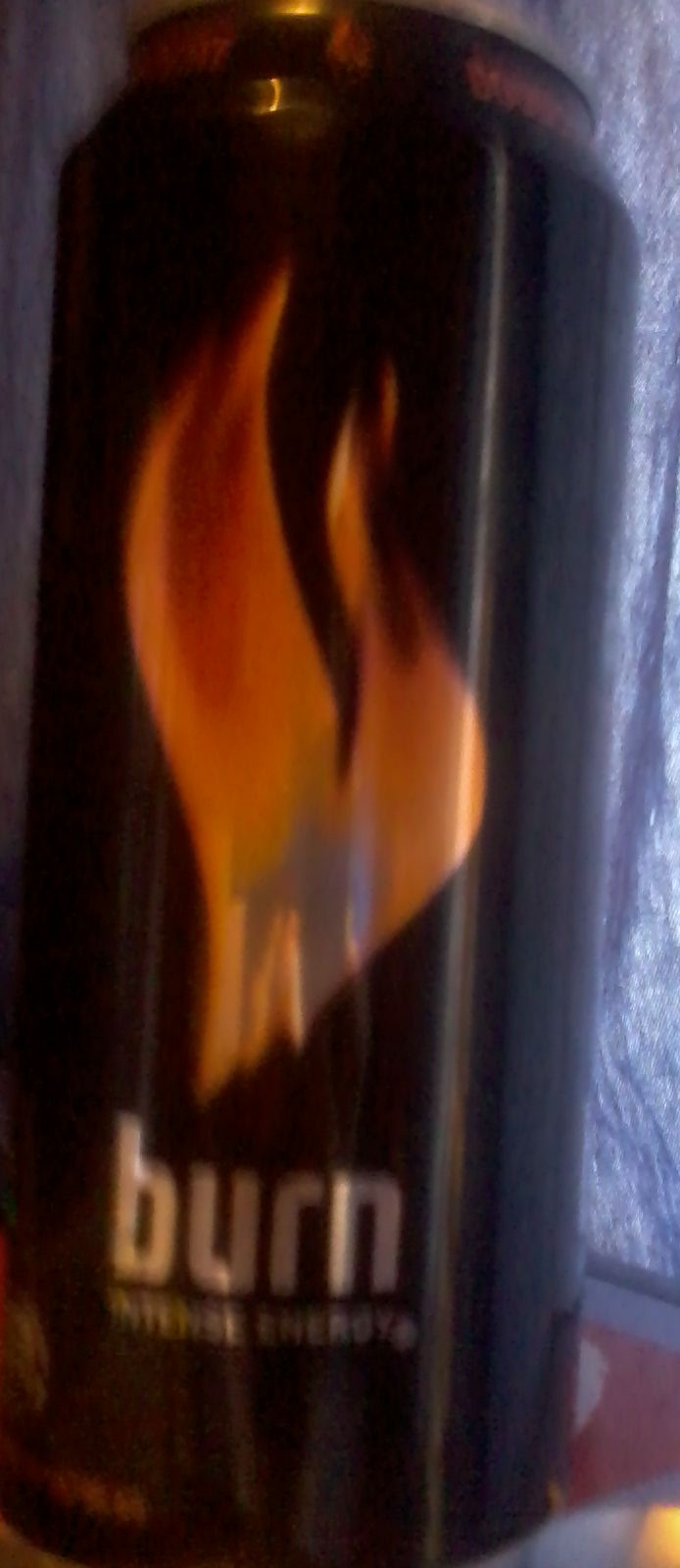 Burn Energy Norsk (bokmål): Burn Energi